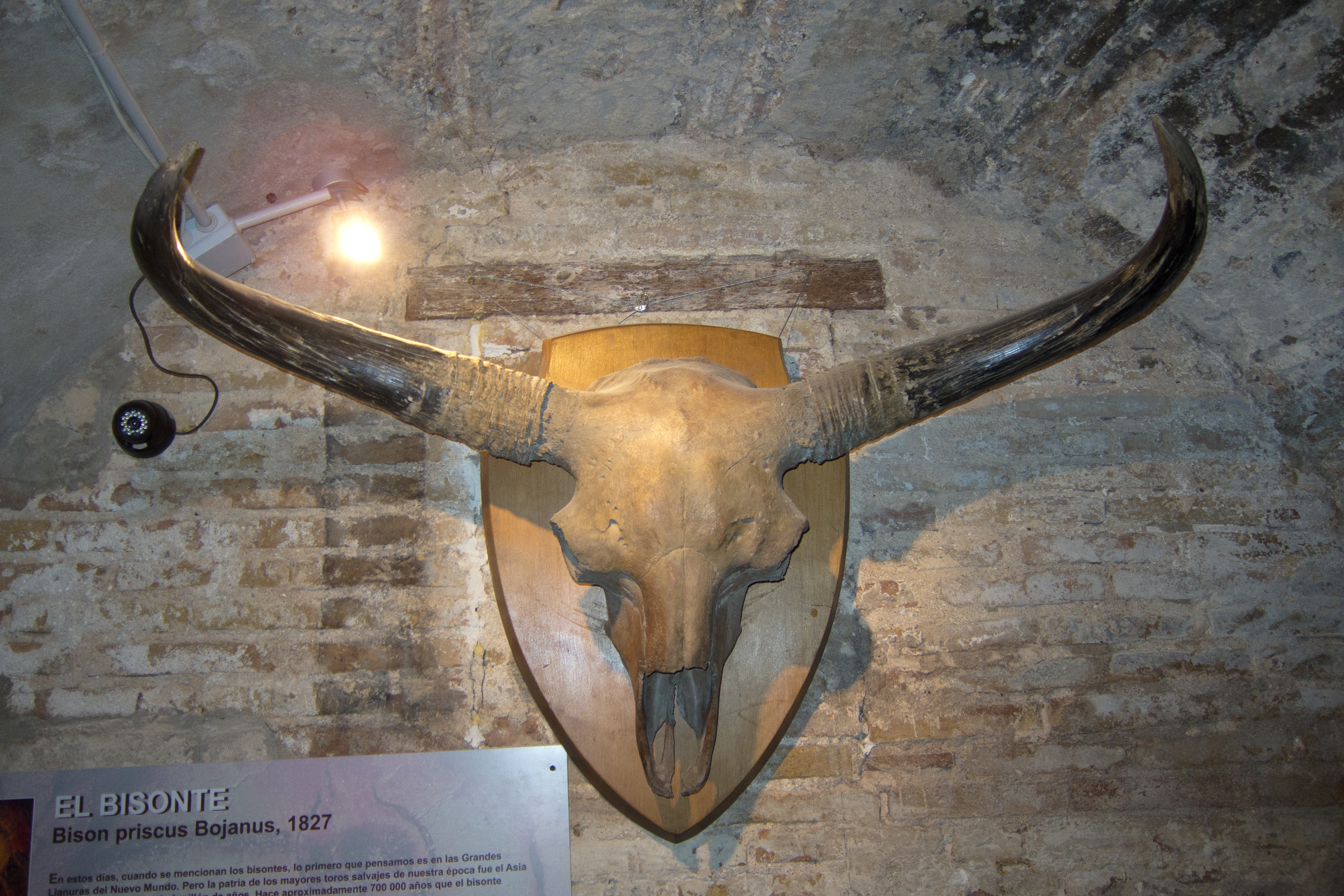 Skull of a pre-historic Bison - Barcelona 2011